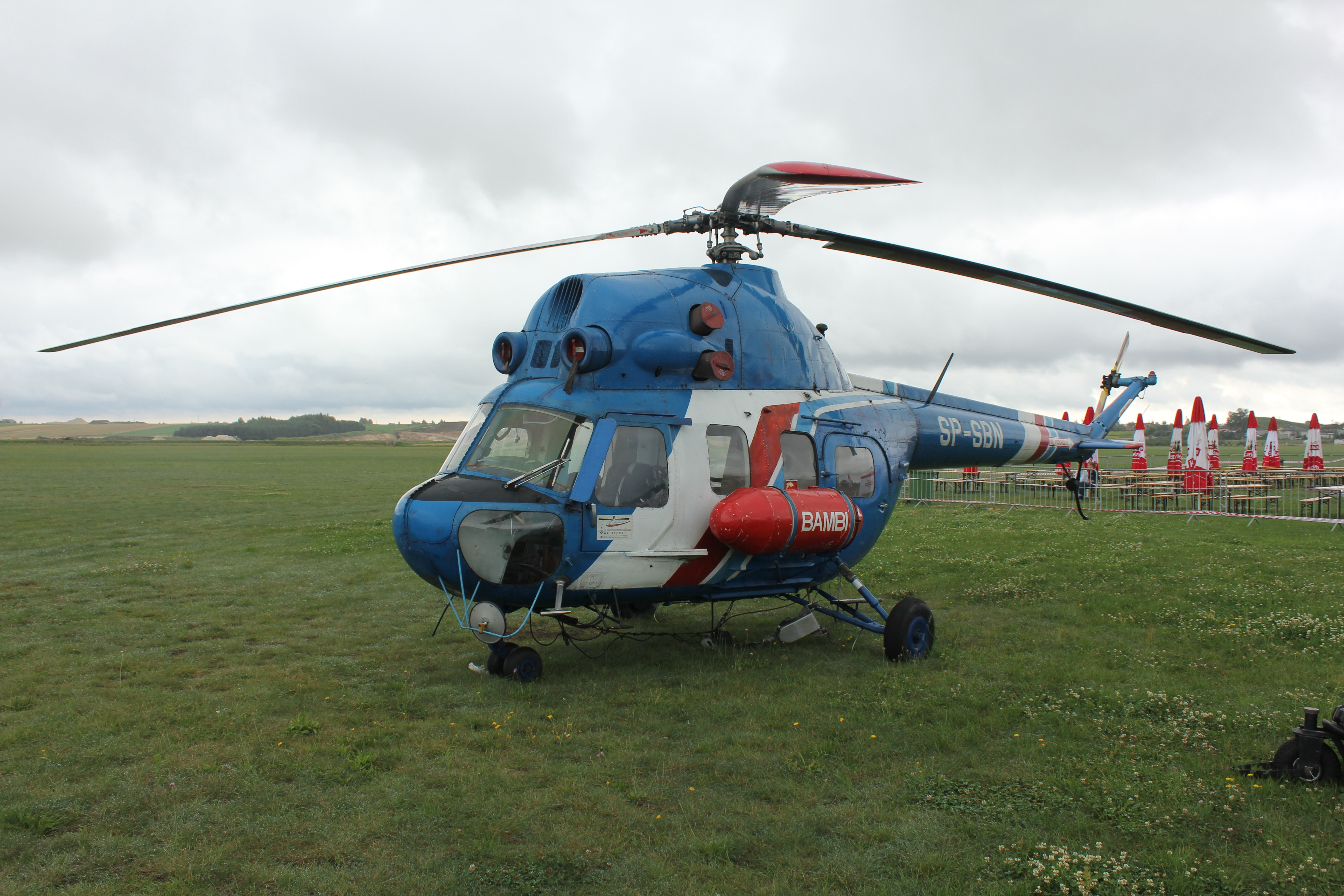 Mi-2 Plus in Kruszyn near Włocławek, Poland 2011